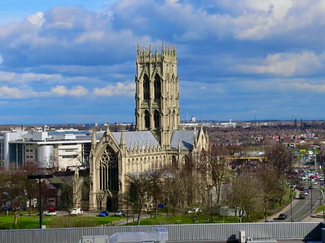 I took this photo from the top of the Frenchgate Interchange carpark